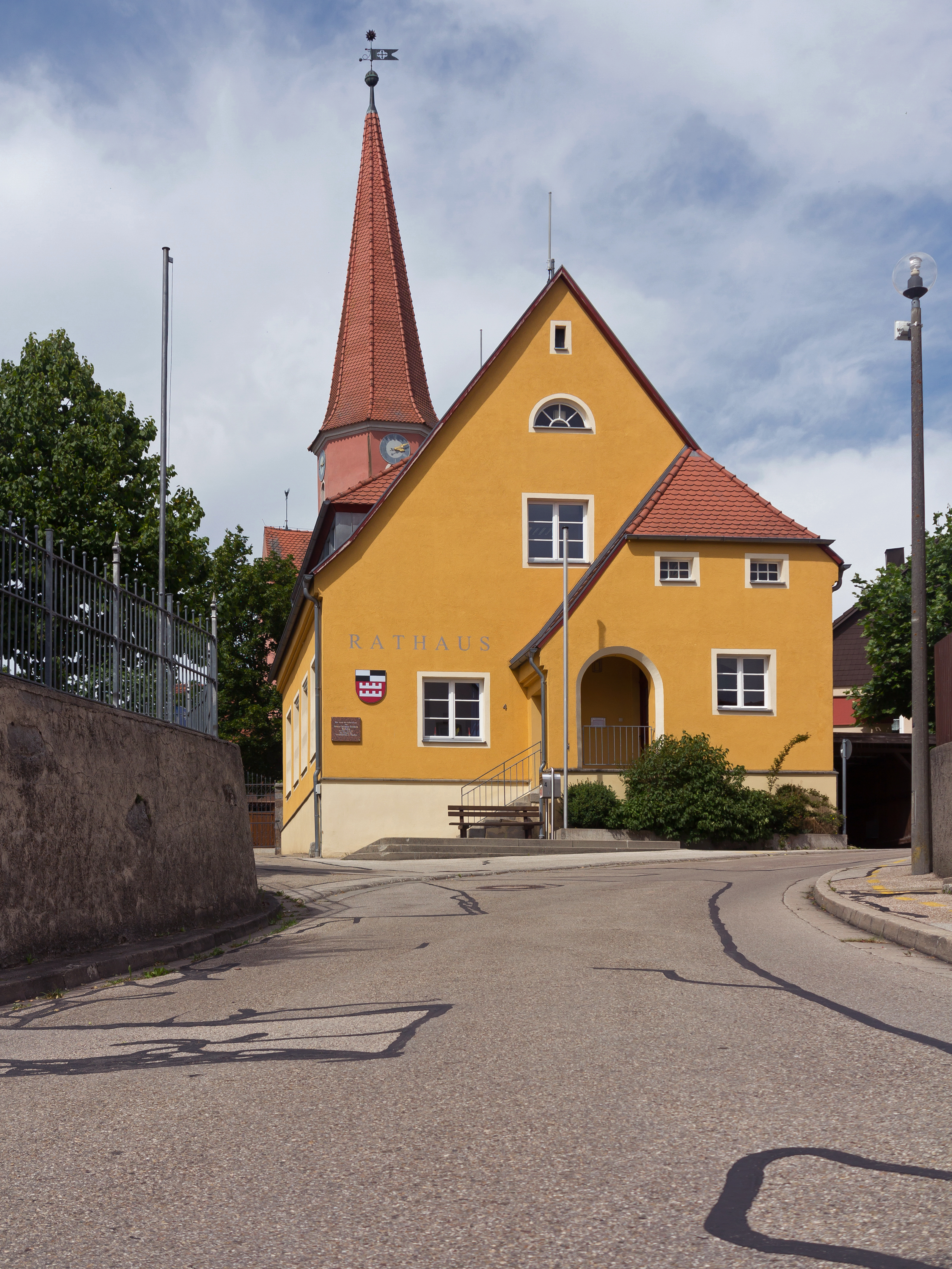 Burk, churchtower (die evangelisch-lutherische Pfarrkirche, ehemals St. Blasius, Nikolaus und Michael )This is a photograph of an architectural monument.